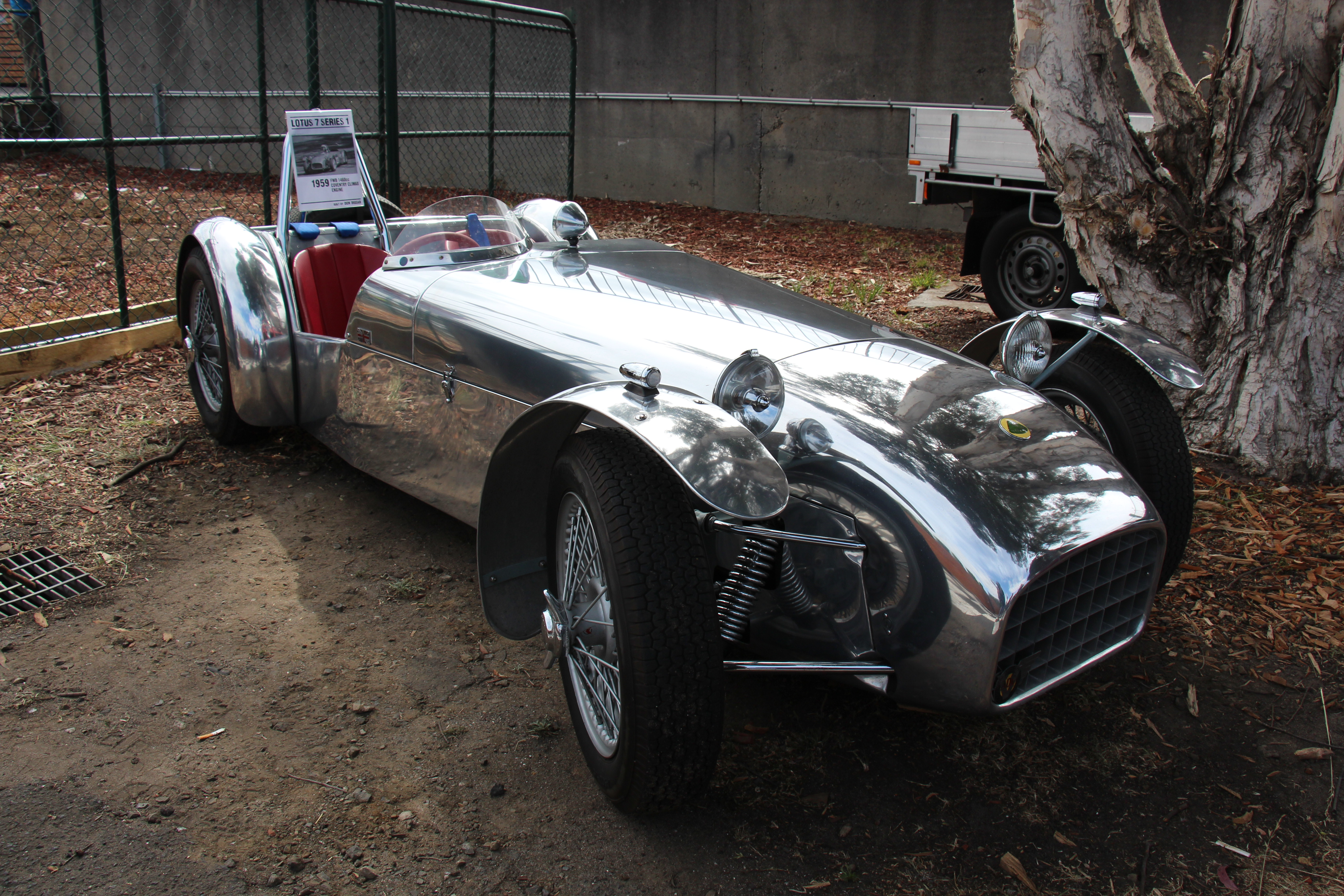 The Lotus Seven is a small, lightweight 2 seat open sports car. The Series 2 was built from 1961-67 1957 Series 1; 1172cc 4 cyl. Ford Side-valve, Aluminium Shell 1960 Series 2; 1340cc 4 cyl. OHV Kent 1968 Series 3; 1500cc 4 cyl. OHV Kent, Large 7 in the grille 1970 Series 4; 1700cc 4 cyl. New shape and fibreglass shell After Lotus ended production of the Seven, Caterham bought the rights and today Caterham make both kits and fully assembled cars based on the original design.